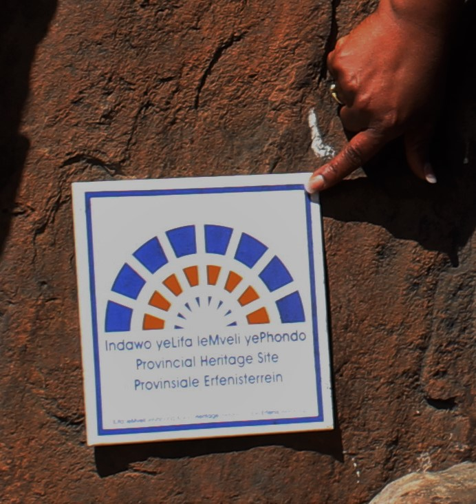 The badge designating the status of the rock shelter as a protected Provincial Heritage SIte